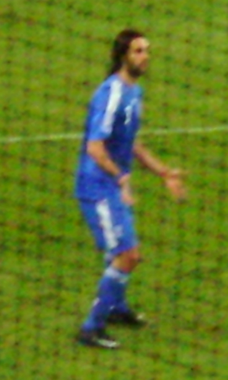 Georgios Samaras Greece vs Moldova